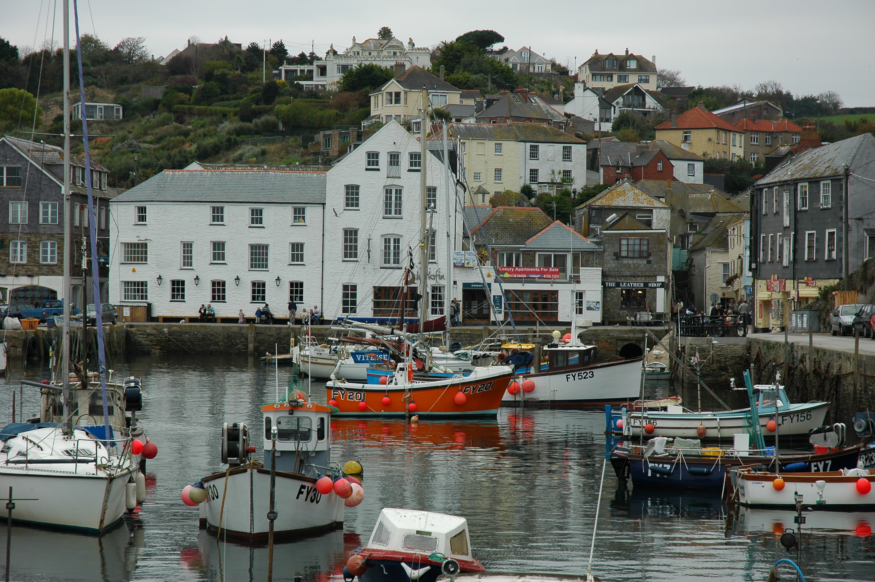 Mevagissey